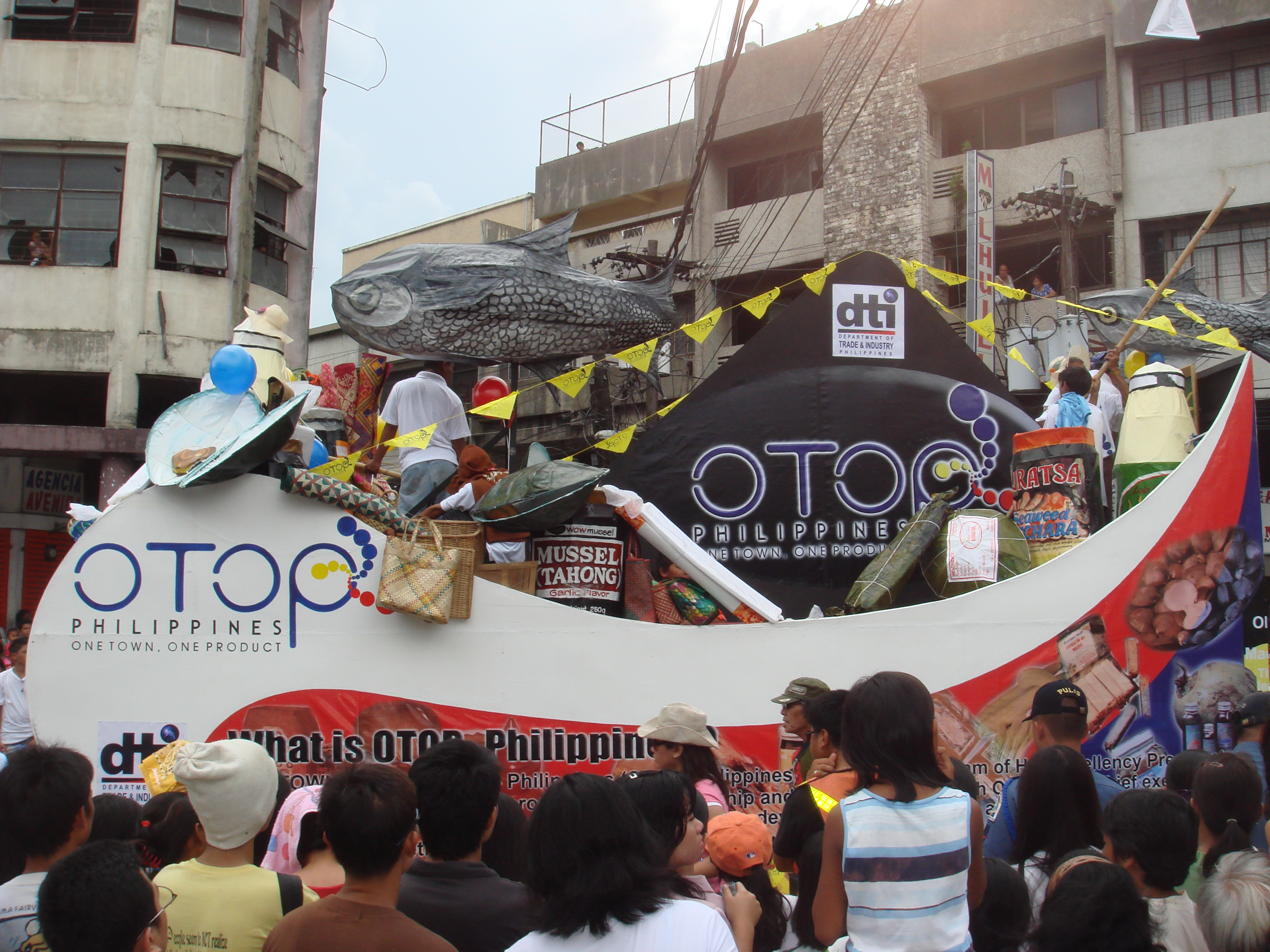 Float exhibiting products of Region VIII